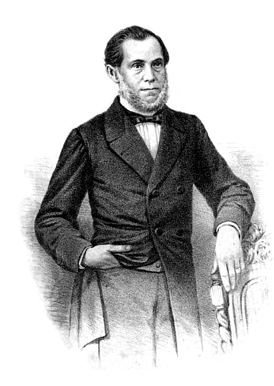 A portrait of Francisco José Furtado, included in the front of Tito Franco's 1867 book, "O conselheiro Francisco José Furtado, biographia e estudo de historia politica contemporanea."